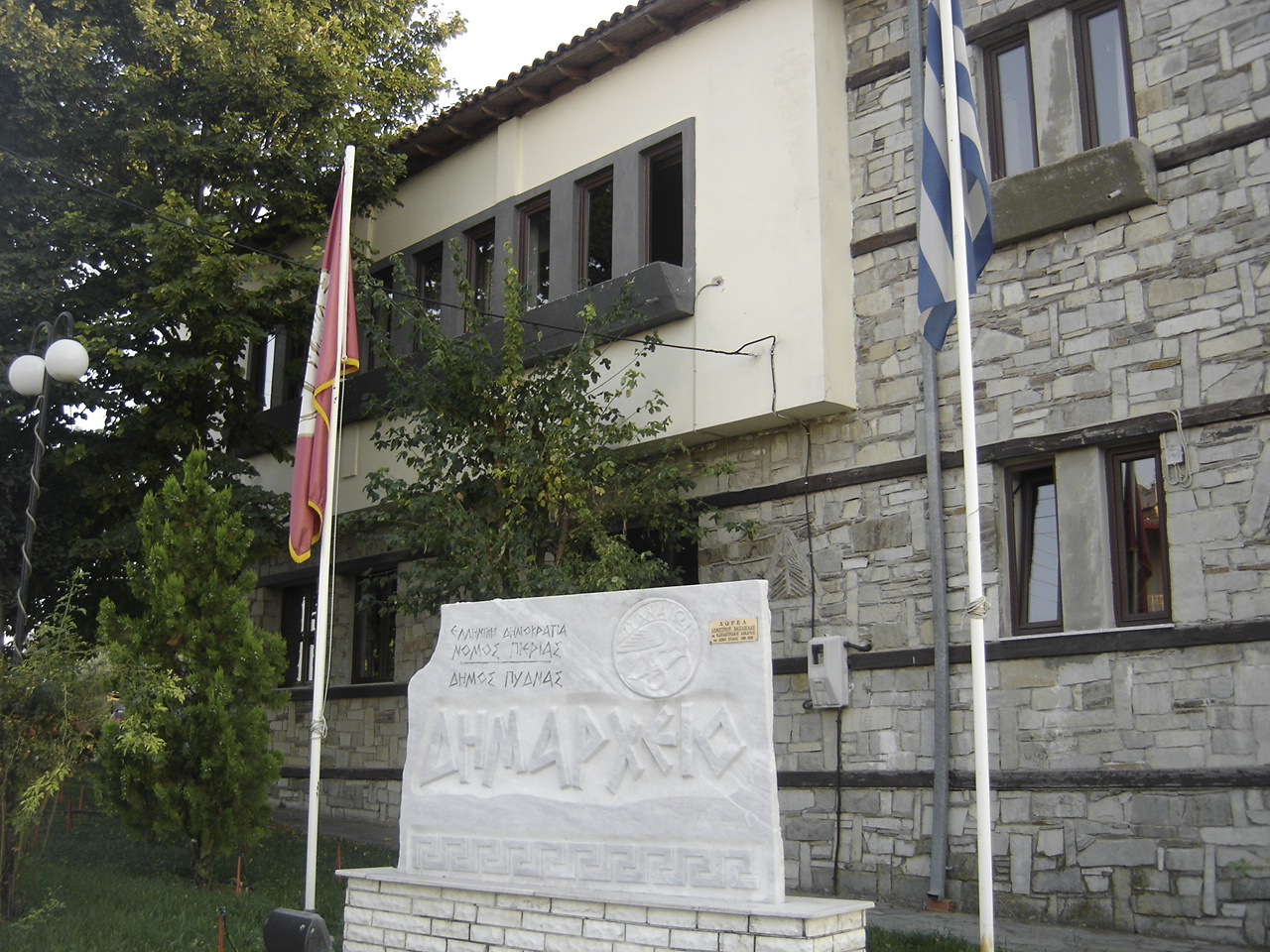 The cityhall of Municipality of Pydna, in Kitros.